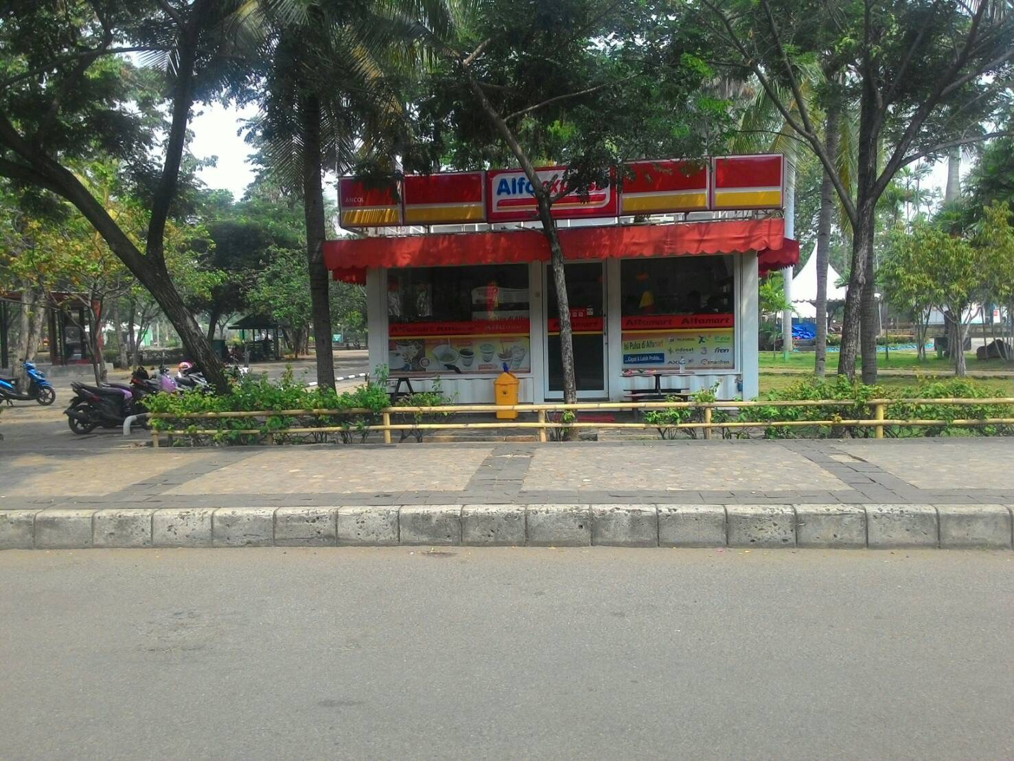 A minimarket at Ancol, Jakarta, Indonesia